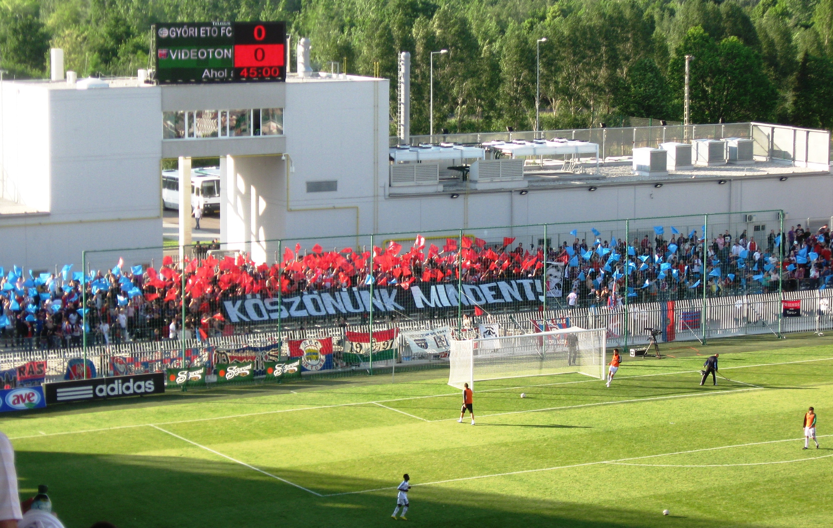 Videoton fans in Győr ETO Park Stadium.